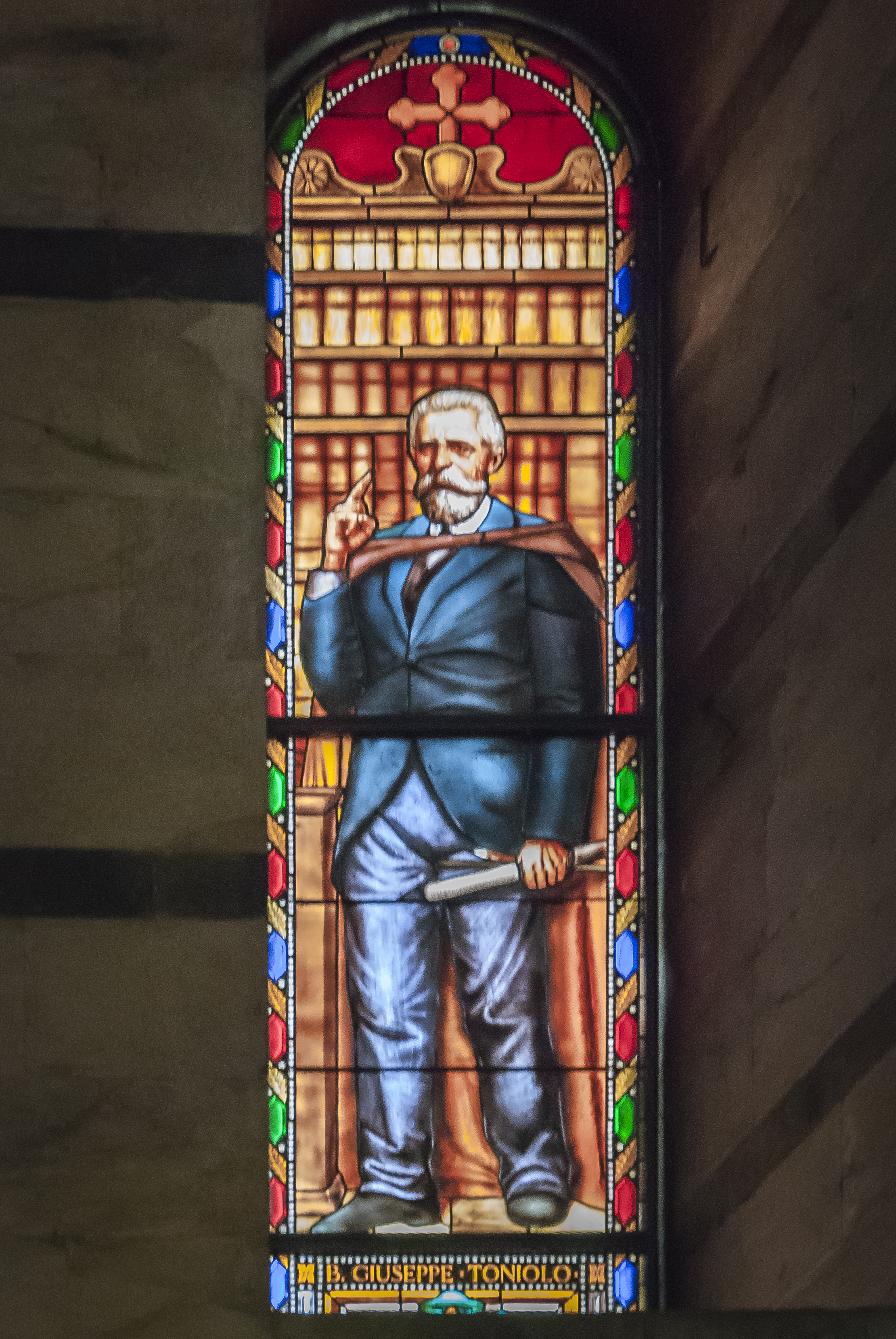 Glass wall of Saint Giuseppe Toniolo in Pisa baptistry